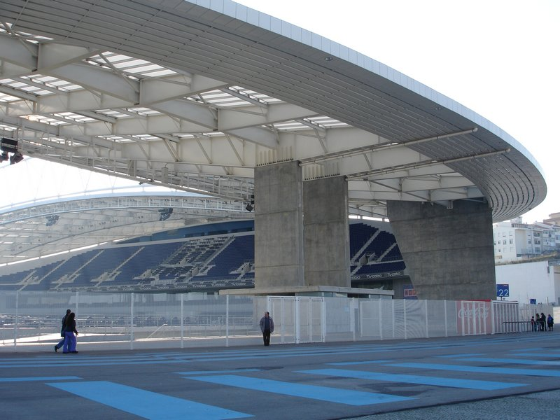 Photo of the north entrance and western stand of Dragão stadium.